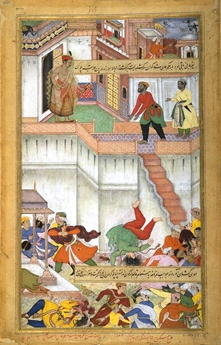 Akbar orders punishment of Adham Khan, his foster brother. A series of images within a single painting shown, Akbar first emerging from his private quarters with a sword in his hand, Adham Khan being thrown down at two different places from the walls of Akbar's palace within Agra Fort, Agra. People shown below, who seem like his followers running away scared. Previously Adham Khan had forced his entry into the private quarters of Akbar, and killed his favourite general Ataga Khan, enraging Akbar. Akbarnama, ca 1590-1595. (Digitally enhanced image)